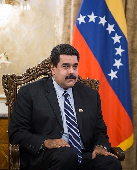 Venezuelan President, Nicolás Maduro in meeting with Iranian President Hassan Rouhani in Saadabad Palace